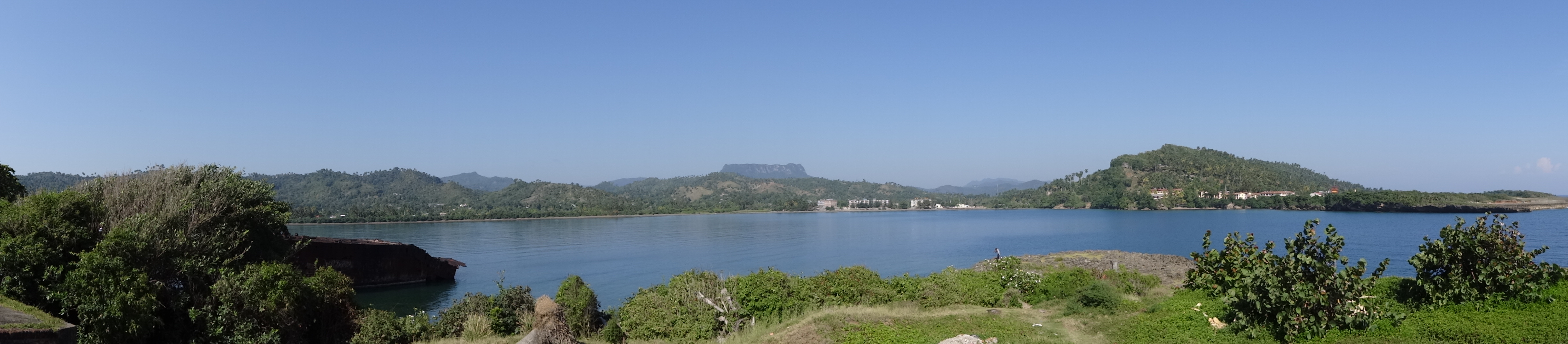 Baracoa Bay, with El Yunque mountain towering in the background, Guantánamo Province, eastern Cuba.